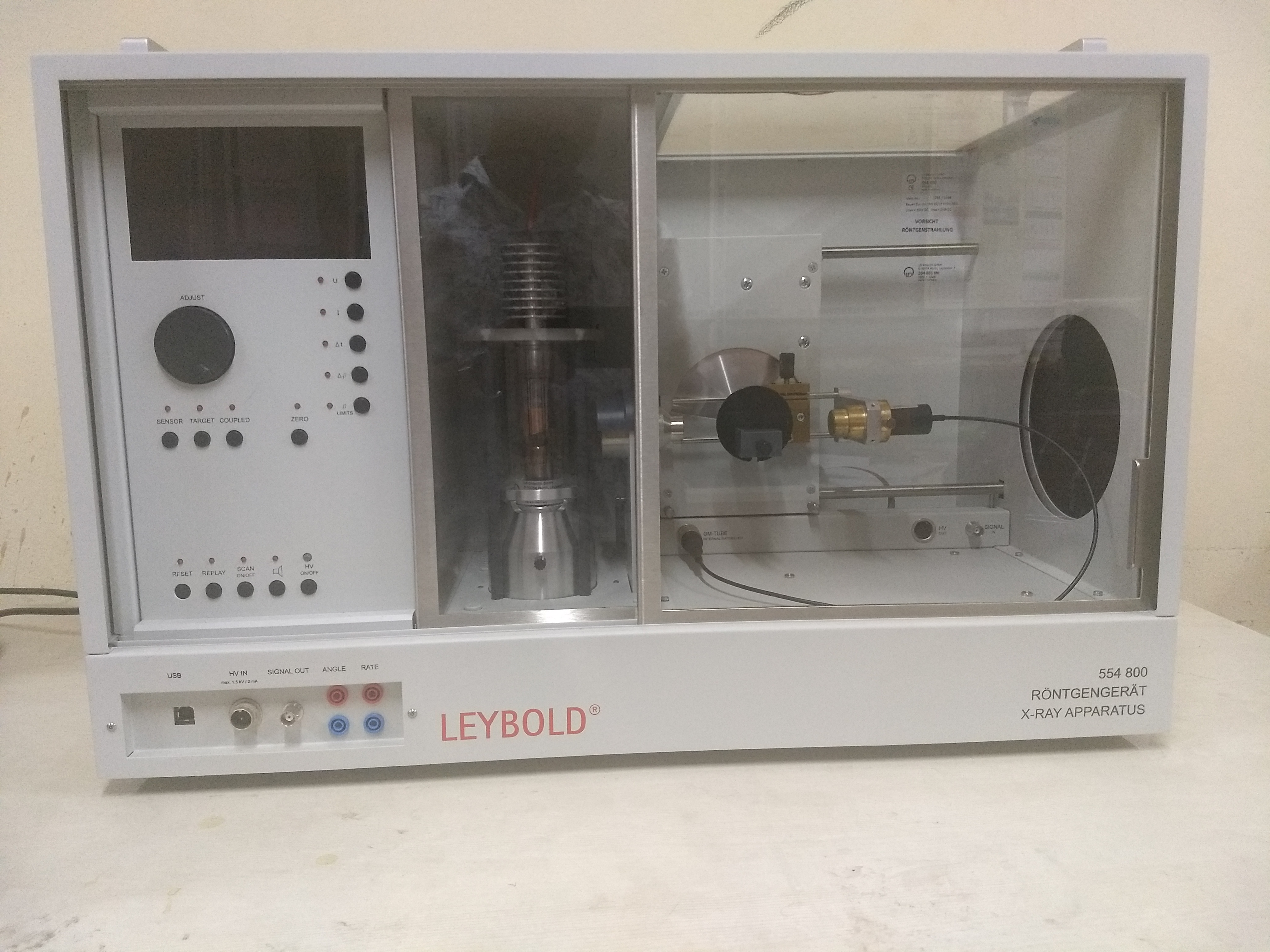 XRD (Whole), in NIT AGARTALA